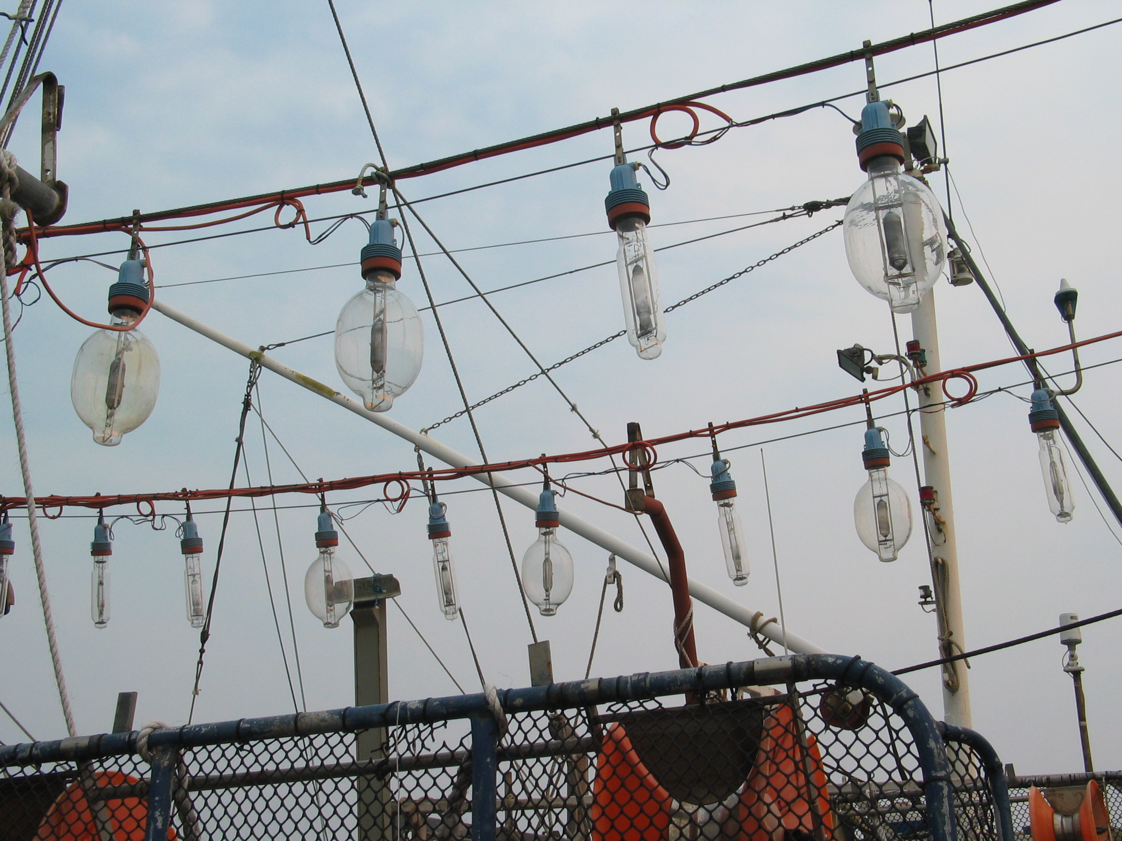 Powerful electric lamps in rigging of squid jigging (fishing) vessel at Lakes Entrance, Victoria, Australia